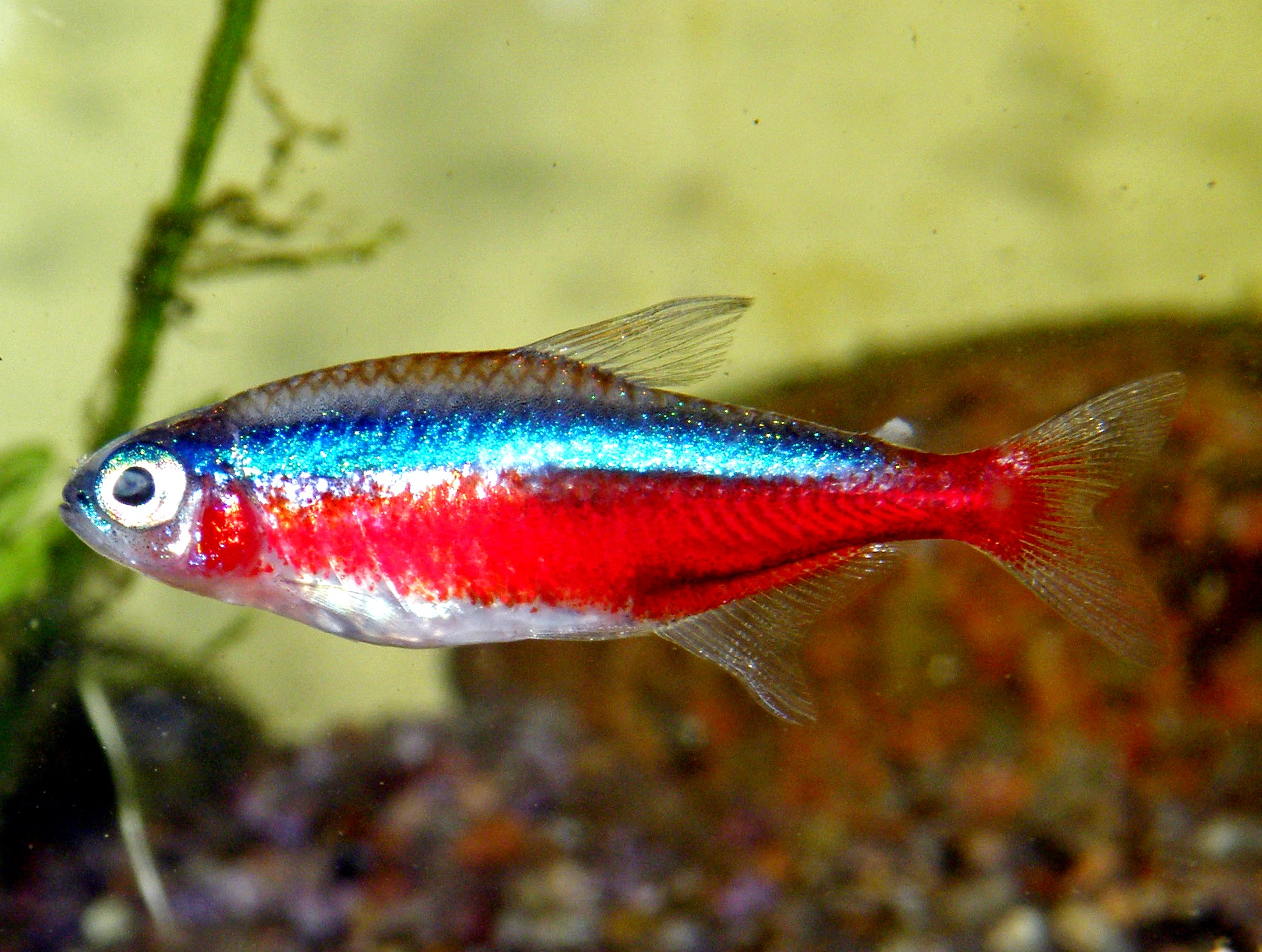 The cardinal tetra, Paracheirodon axelrodi, is a freshwater fish of the characin family (family Characidae) of order Characiformes. It is native to the upper Orinoco and Negro Rivers in South America.